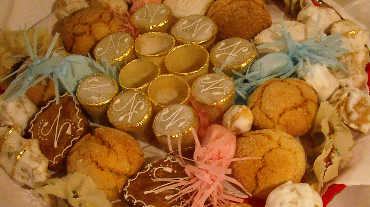 cuisine of Sardinia Pastries